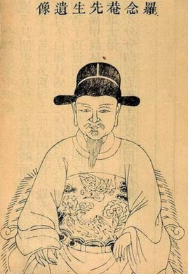 Luo Hongxian, scholar of the Ming Dynasty.